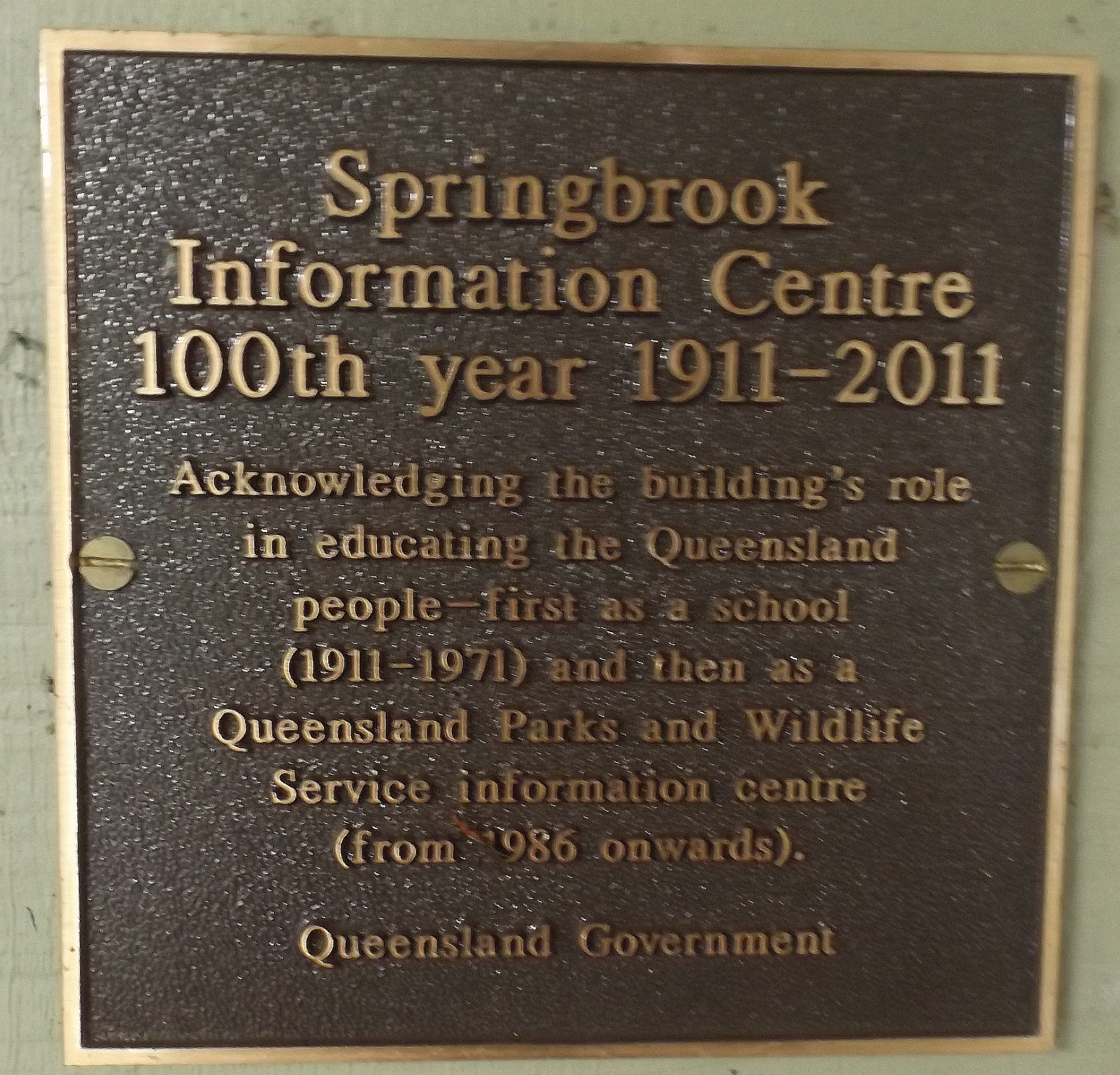 Photo of a plaque at the former Springbrook State School, now a national park information centre, at Springbrook, City of Gold Coast, Queensland, Australia.